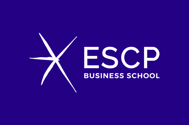 ESCP Logo